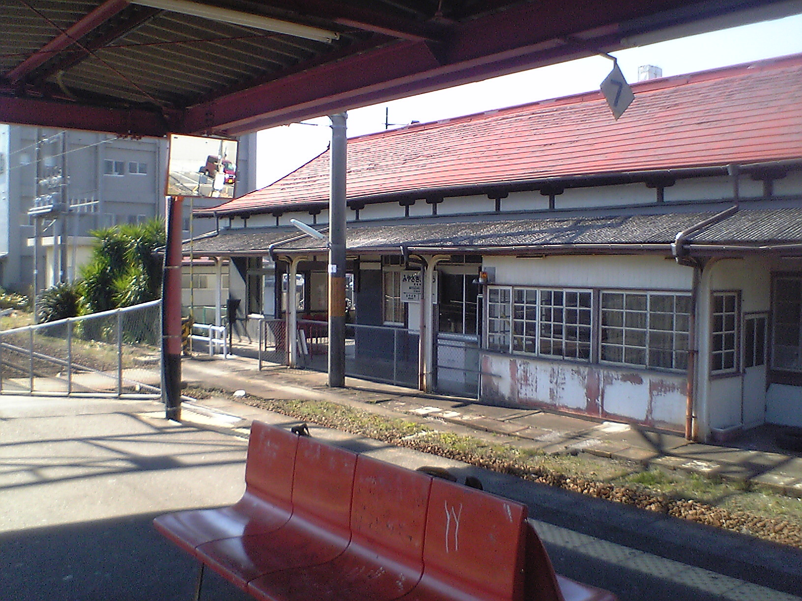 Miyazaki-Jingu Station building